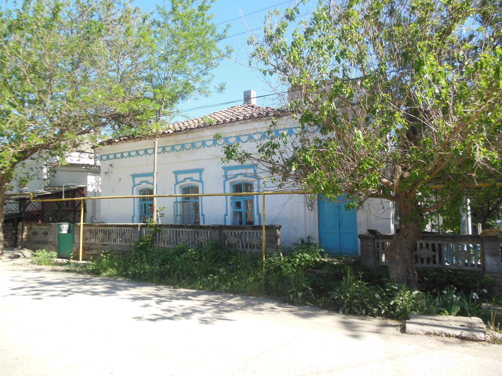 The surviving German home in the village Kolchugino